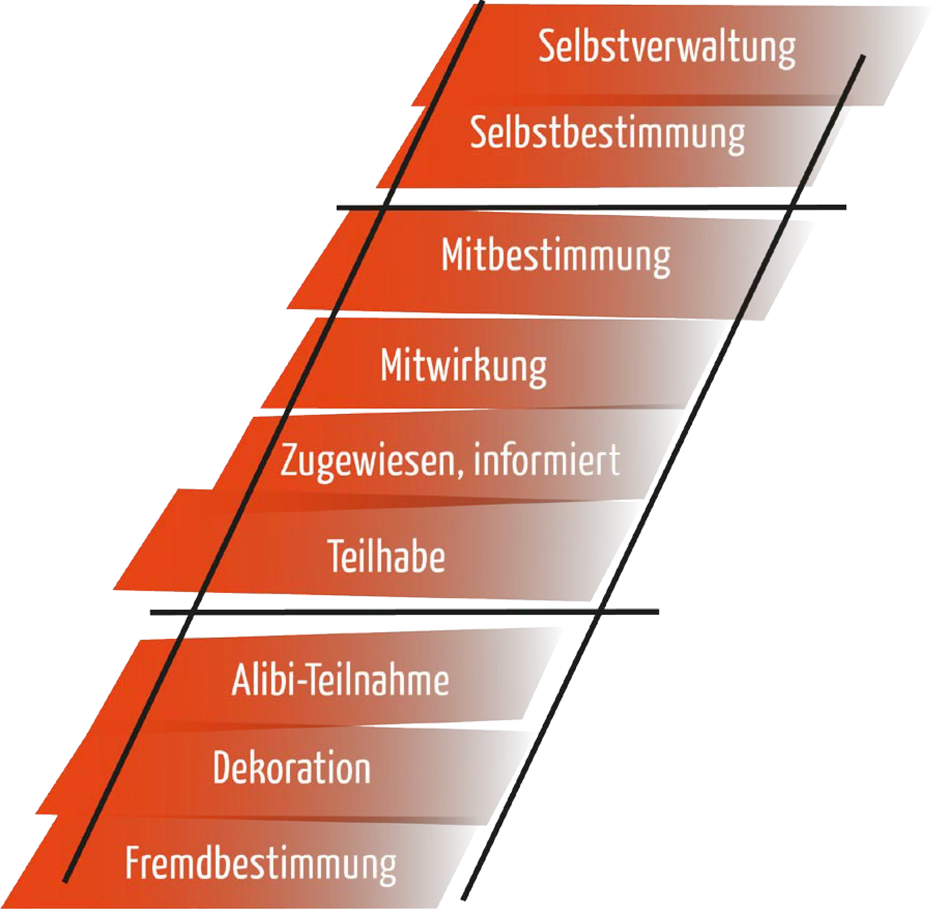 Steps of participation in German